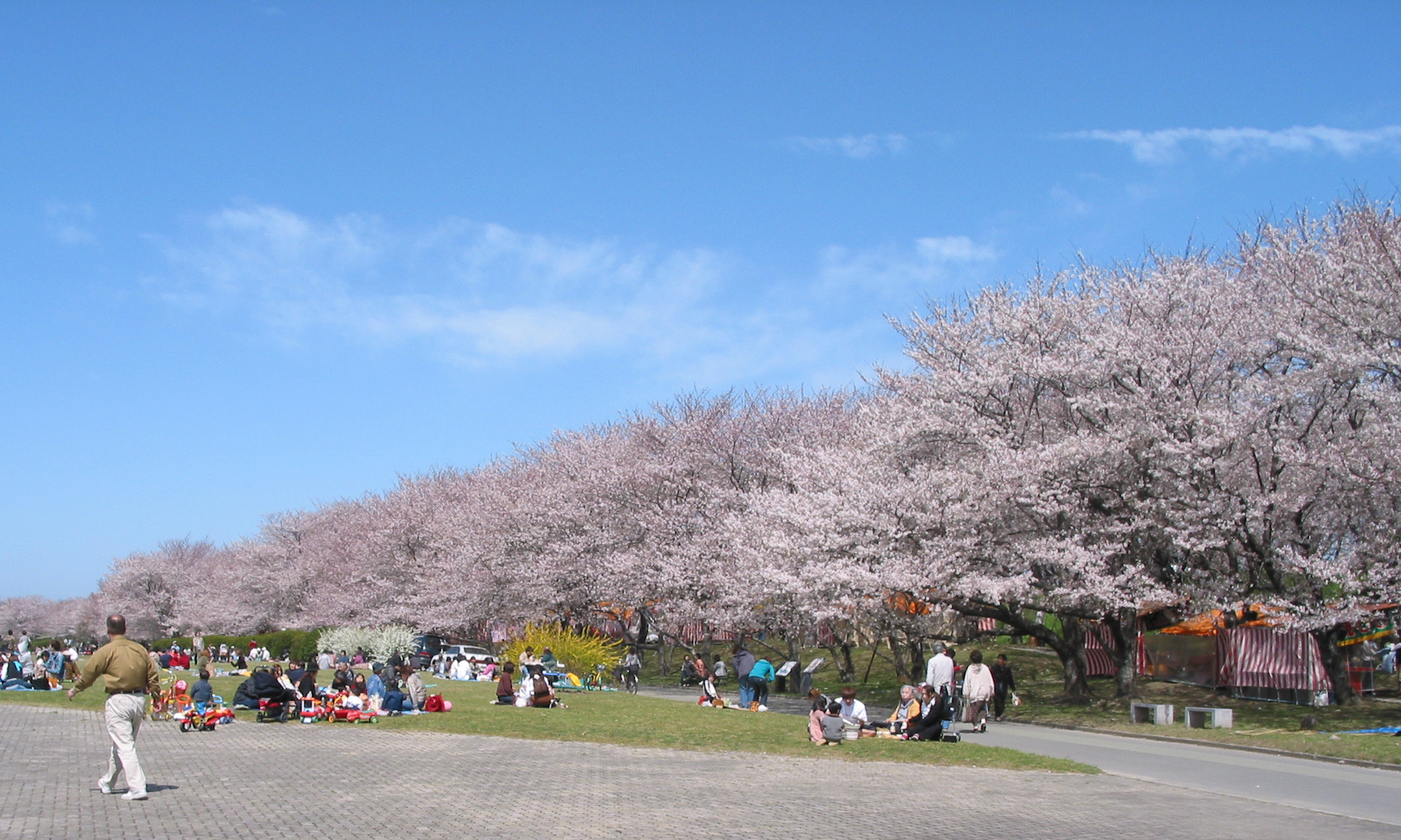 Cherry blossoms at the Miyagawa-Tsutsumi(Dikes of the Miya-river) 宮川堤の桜（三重県伊勢市）